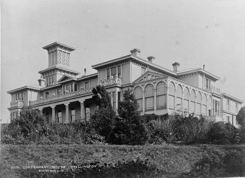 Second Government House, Wellington, New Zealand, Original Format: Glass plate negative